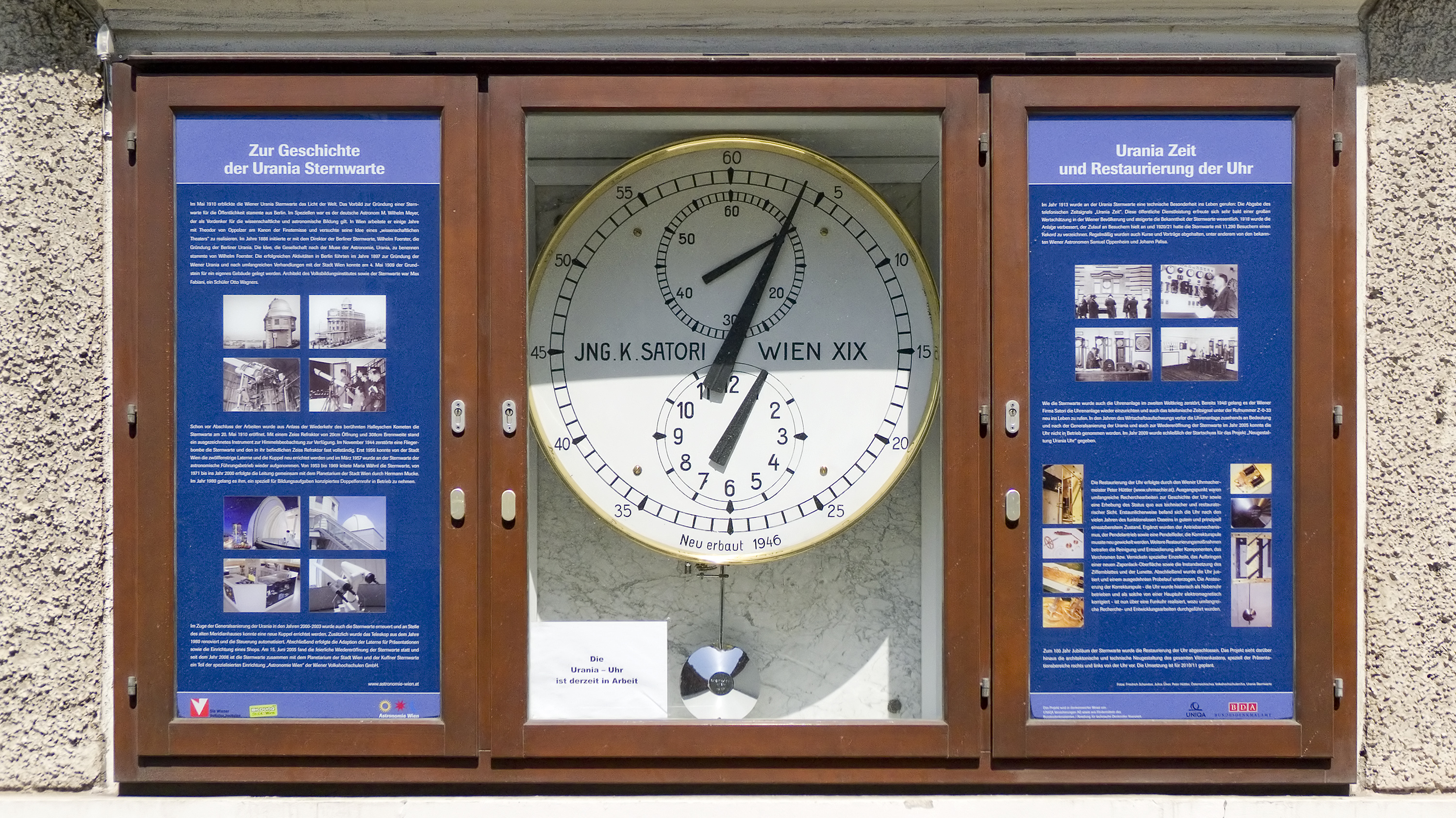 Clock „Urania-Uhr“ at the Urania (Wien) in Vienna 1